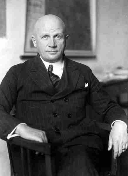 Stanisław Osiecki, Polish politician, Minister of Industry and Trade of Poland 1925- V.1926